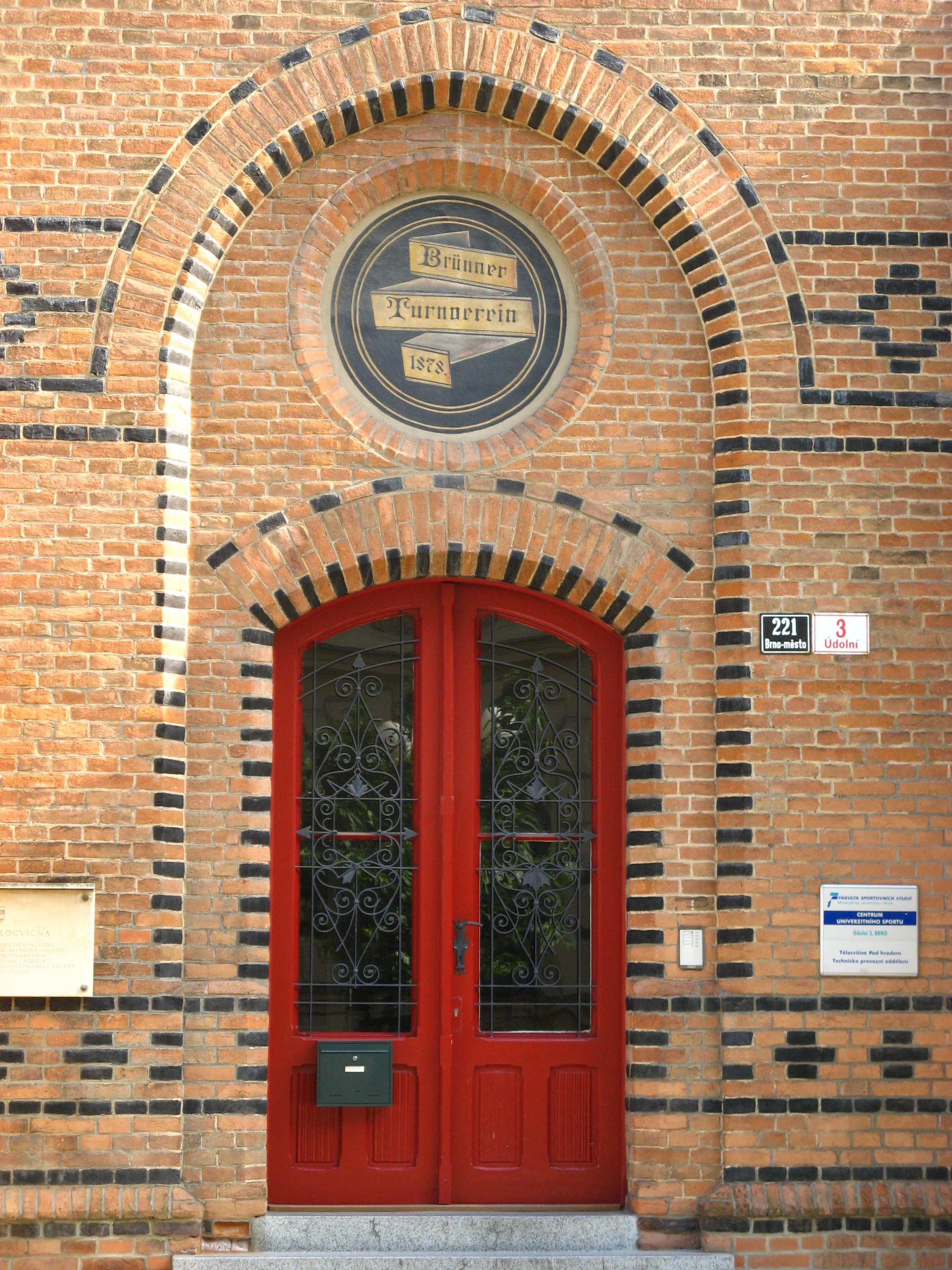 Drill-hall "Pod Hradem", Faculty of Sports Studies, Masaryk University, Brno.